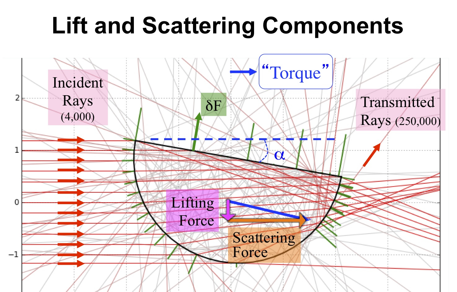 A bundle of rays are incident on a lightfoil from the left. Through refraction and reflection, each ray imparts some momentum at every surface of the lightfoil. These discrete momentum transfers are shown in the form of surface normal forces - green lines. Summing the momentum imparted from every ray results in a total force from the center of mass with lifting and scattering components and a total torque - shown here as inducing clockwise rotation. This specific case is for a lightfoil in the shape of a semi-circular rod oriented with an angle of attack, alpha, of about 10°.